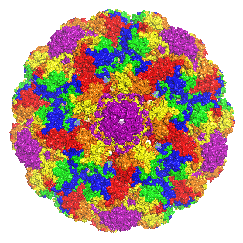 Rendering of the murine polyomavirus (MPyV) icosahedral viral capsid assembly, comprising 72 pentamers of the protein VP1. The structure is colored according to the six distinct bonding environments of VP1 present in the T=7 icosahedral capsid. Purple objects are strict pentamers (n=12). The five distinct chains making up the remaining (n=60) "local" pentamers are shown in red, orange, yellow, green, and blue. Image rendered using PyMol from PDB 1SIE. (Note: This image is identical in orientation to File:Mpyv_colorbydepth.png, but colored differently. It is in a slightly different orientation from File:Mpyv_alpha.png. This one is centered on a strict pentamer for improved symmetrical appearance. See [1] and [2] for definitions of capsid components.)